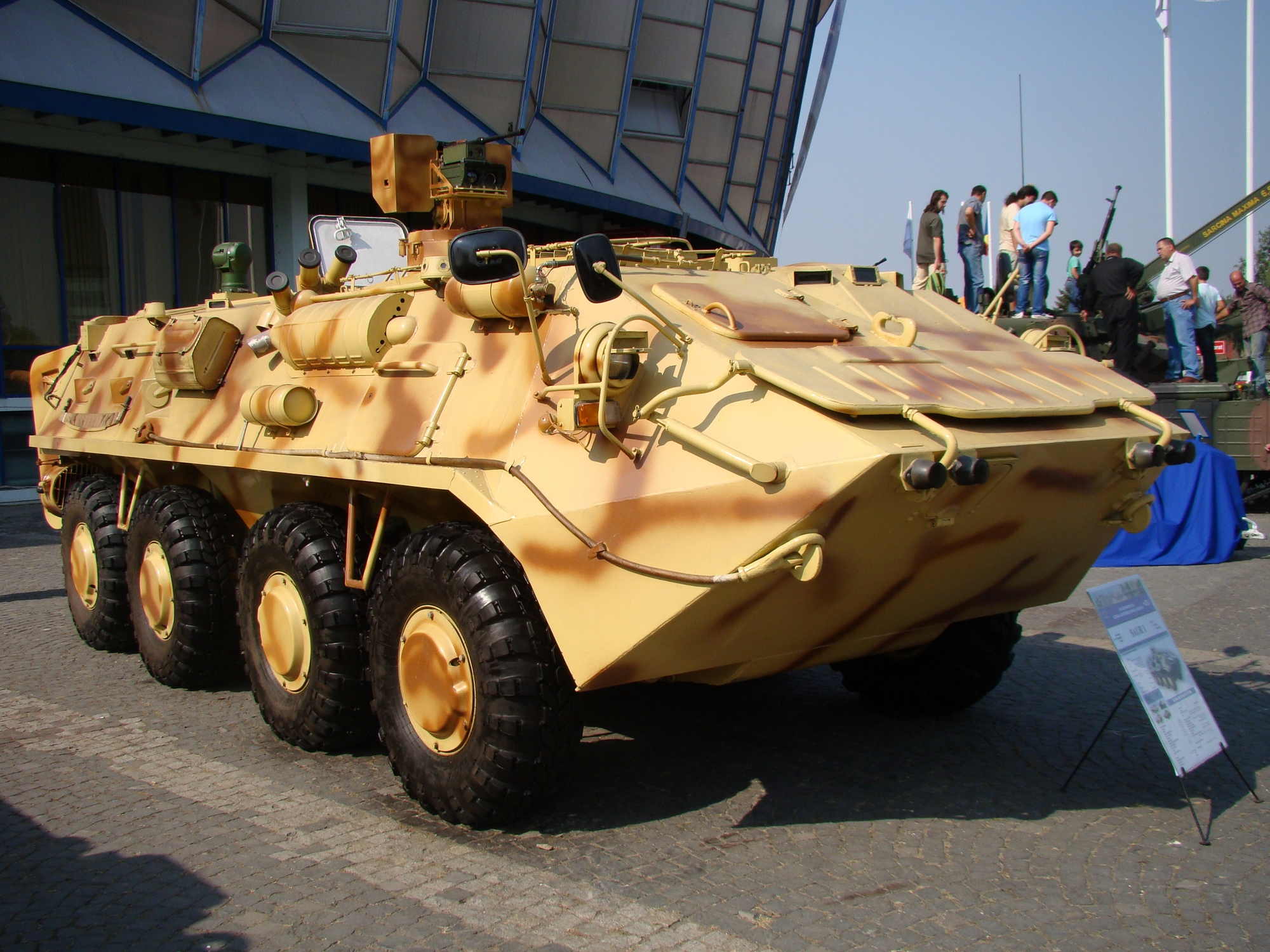 SAUR 1 APC on display at Expomil 2011.